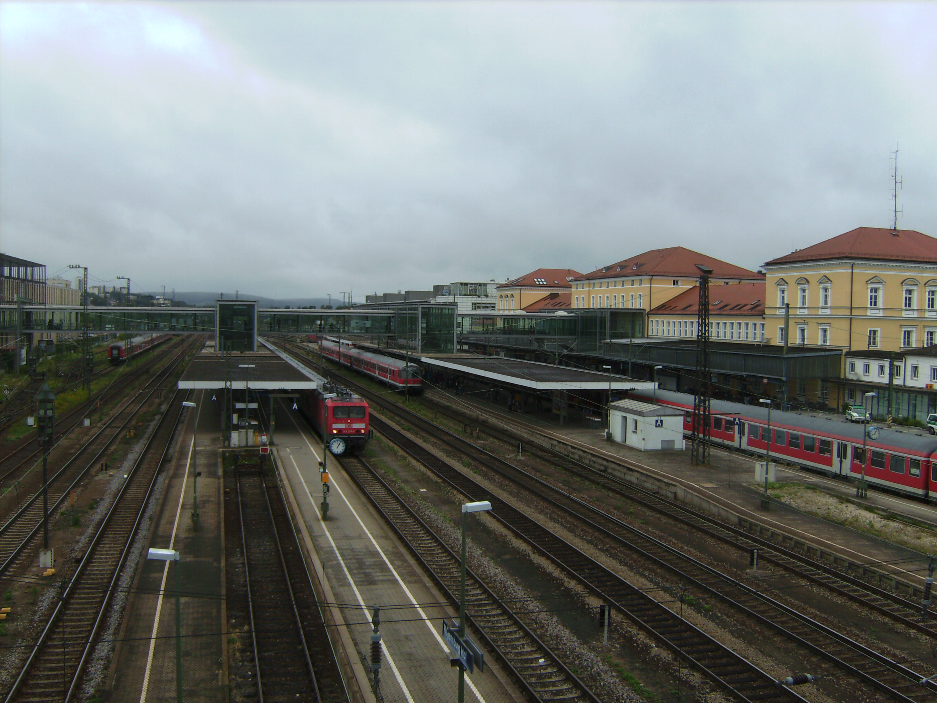 View over the platform and track area of Regensburg main station, on the right the eintrance building, on the left the shopping centre "Regensburg Arcaden".